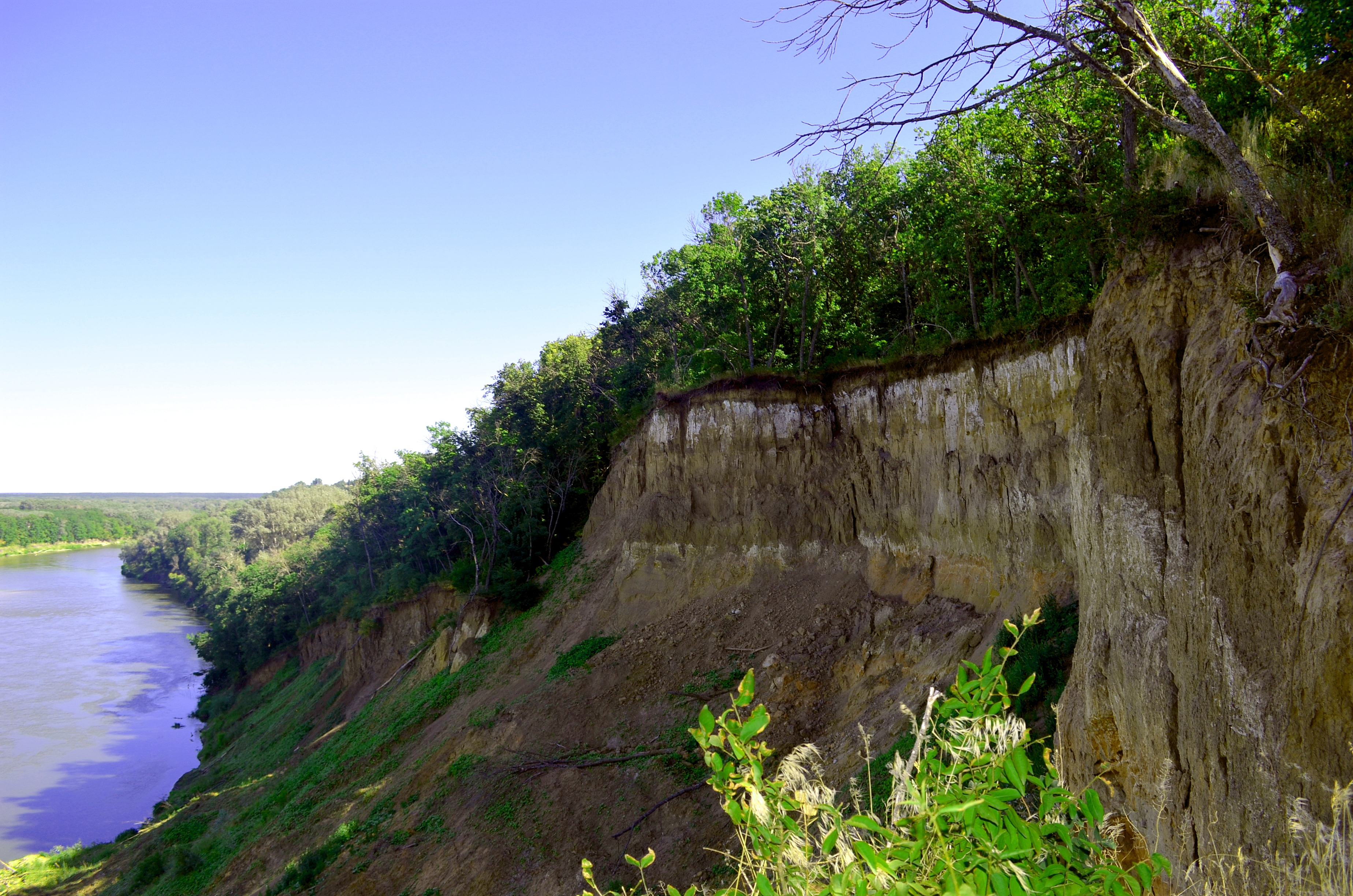 Khopyor River in the Voronezh Region: Novokhopyorsky District, Voronezh Region This image is related to the protected area of Russia number 3610567